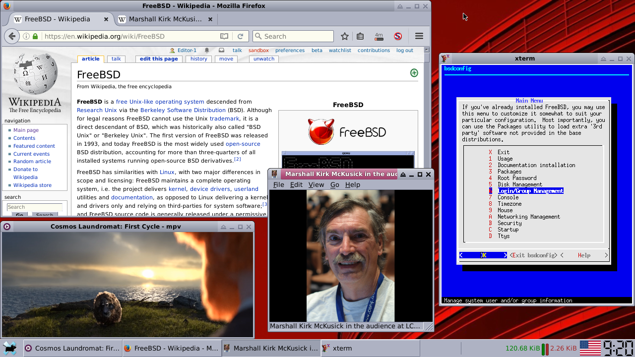 Screenshot of FreeBSD 11.0, with Xfce 4.12, the Xfce-terminal, MPV media player is showing Cosmos Laundromat, Xtrm is showing "bsdconfig" the system configuration utility, and the Mozilla Firefox (45.4.0 ESR)